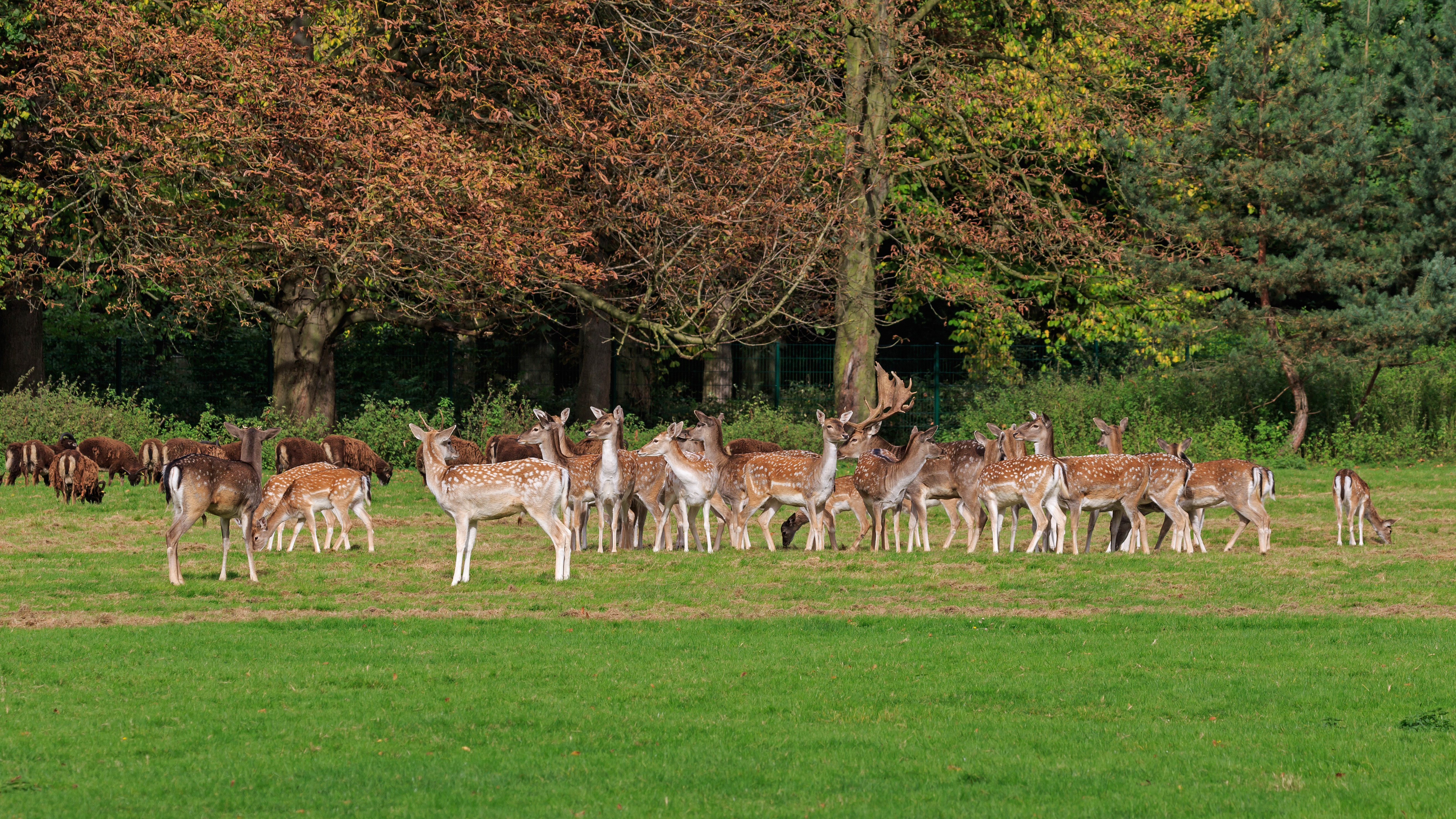 City Forest in Cologne (Germany)